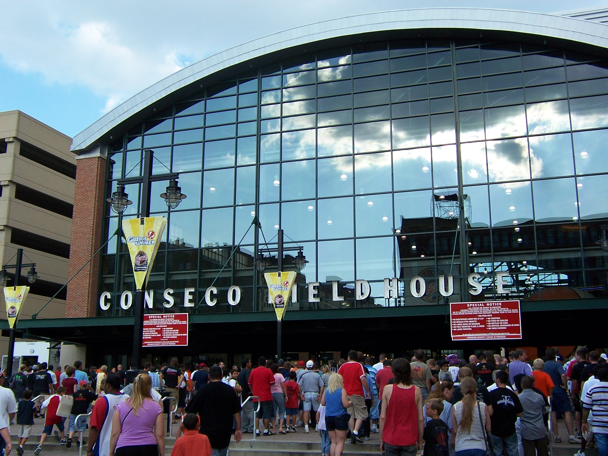 Photo of Conseco Fieldhouse; Indianapolis, IN Now called Bankers Life Fieldhouse. . Go to